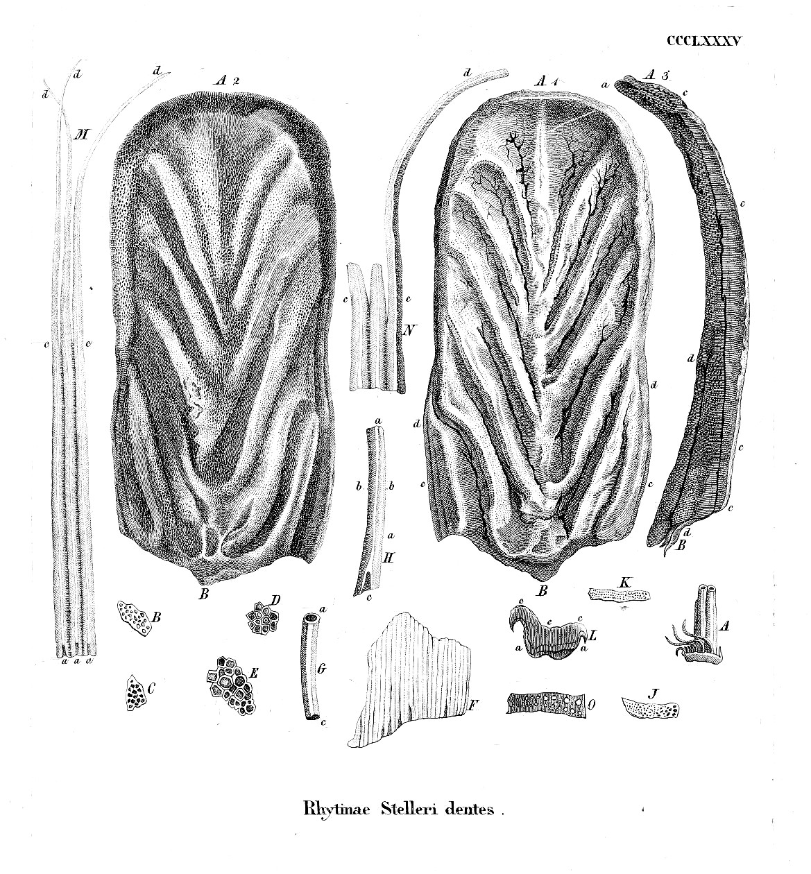 Hydrodamalis gigas Tooth.